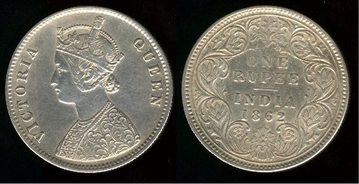 1 rupee, 1862.